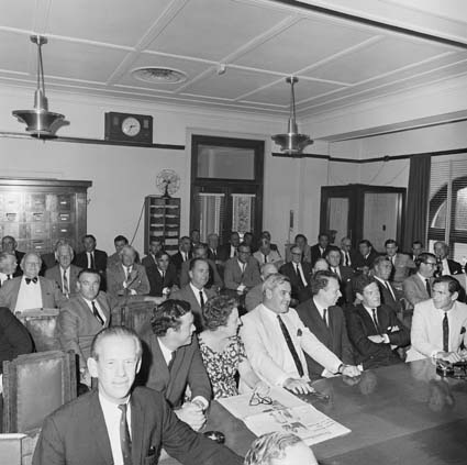 The federal Liberal Party Room electing John Gorton as leader and Prime Minister